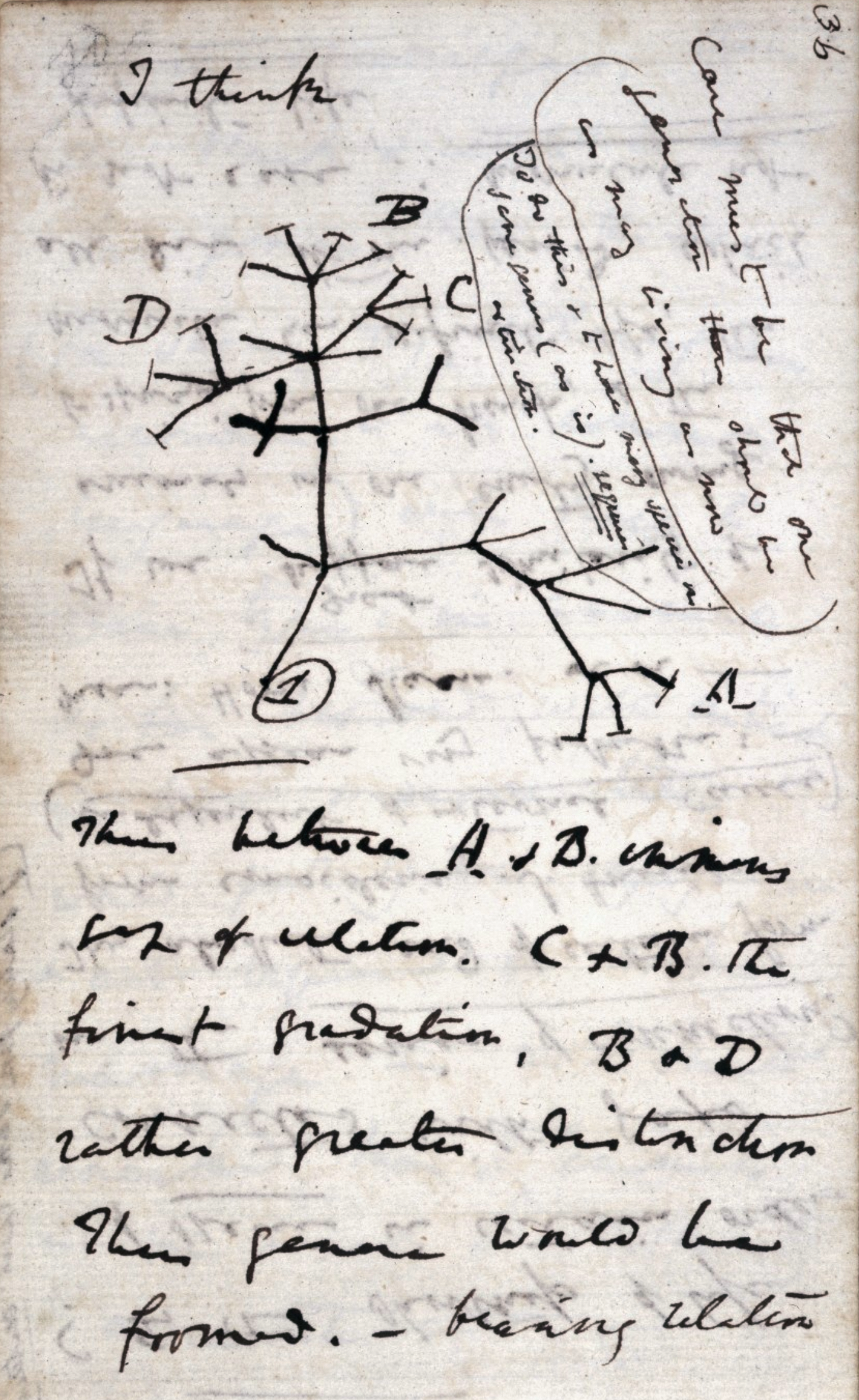 Charles Darwin's 1837 sketch, his first diagram of an evolutionary tree from his First Notebook on Transmutation of Species (1837). Interpretation of handwriting: "I think case must be that one generation should have as many living as now. To do this and to have as many species in same genus (as is) requires extinction . Thus between A + B the immense gap of relation. C + B the finest gradation. B+D rather greater distinction. Thus genera would be formed. Bearing relation" (next page begins) "to ancient types with several extinct forms"